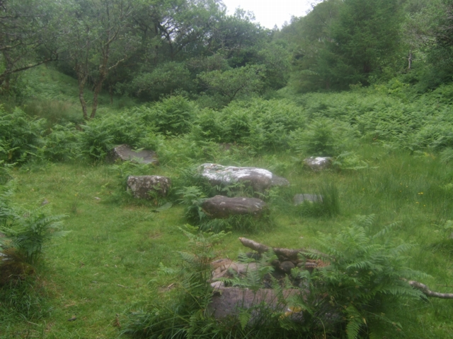 Scotia's Grave A path leads up beside the Finglas rivulet to the stones. It is reputed to be the grave of a daughter of an Egyptian Pharaoh in Glenn Scoithin, the vale of the little flower. According to medieval Irish mythology Scotia, wife of the former Milesius and mother of six sons, was killed in battle with the legendary Tuatha Dé Danann on the nearby Slieve Mish mountain. Scotia had come to Ireland to avenge the death of her husband, the King who had been wounded in a previous ambush in south Kerry. She was an accomplished horsewoman, but, while pregnant, attempted to jump a bank that would not normally have presented a problem. However, the extra mass of her pregnancy caused her to fall and die. Ref Wikipedia for description I assume this is the right stone as the somewhat overgrown path seemed to go no further.